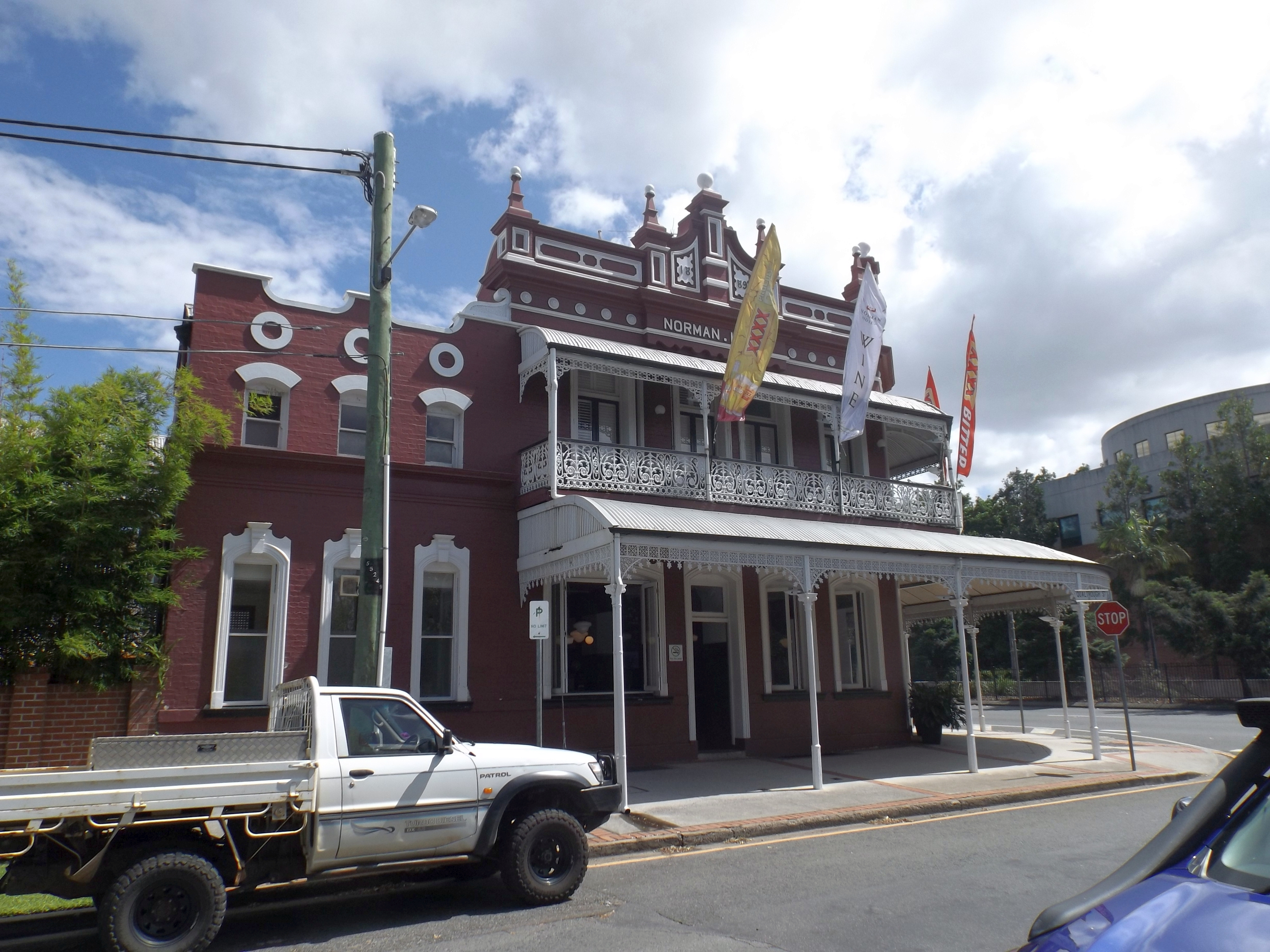 Photo of Norman Hotel as seen from Qualtrough Street in Woolloongabba, Brisbane, Queensland, Australia.